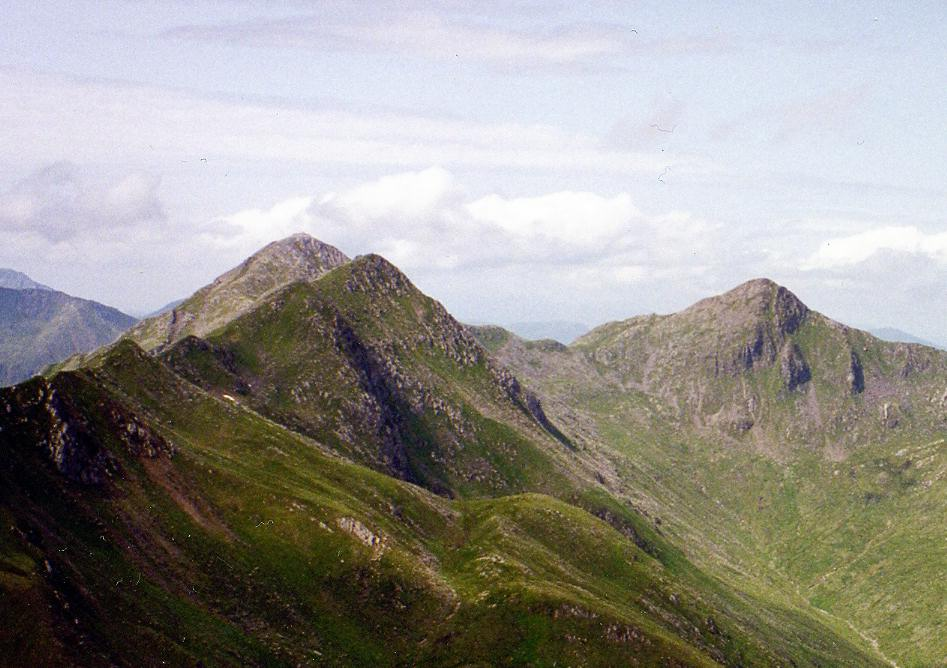 Personal photograph taken by Mick Knapton